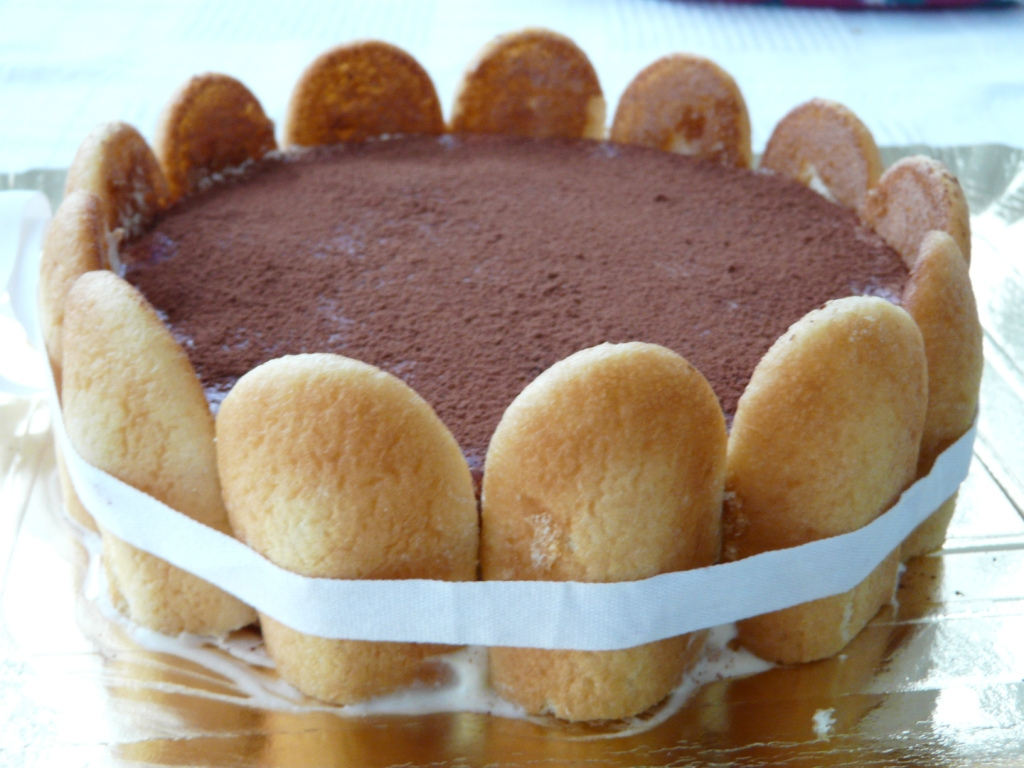 A completed tiramisu.